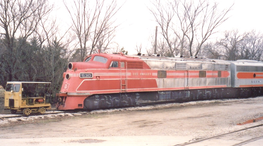 Rock Island (CRIP) locomotive #630. Currently privately owned, and operated by the Midland Railway of Baldwin City, KS. EMD model E6A – built in 1941. “Rocket” red, orange, and aluminum paint scheme. Photo taken by Russell Meier on November 28, 2004 in Baldwin City, Kansas, on the Midland Railway. This image was scanned from a Kodak Max Versatility ASA 400 print. The photo was cropped and brightened before uploading to Wikipedia.